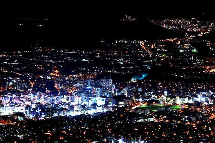 창원광장야경